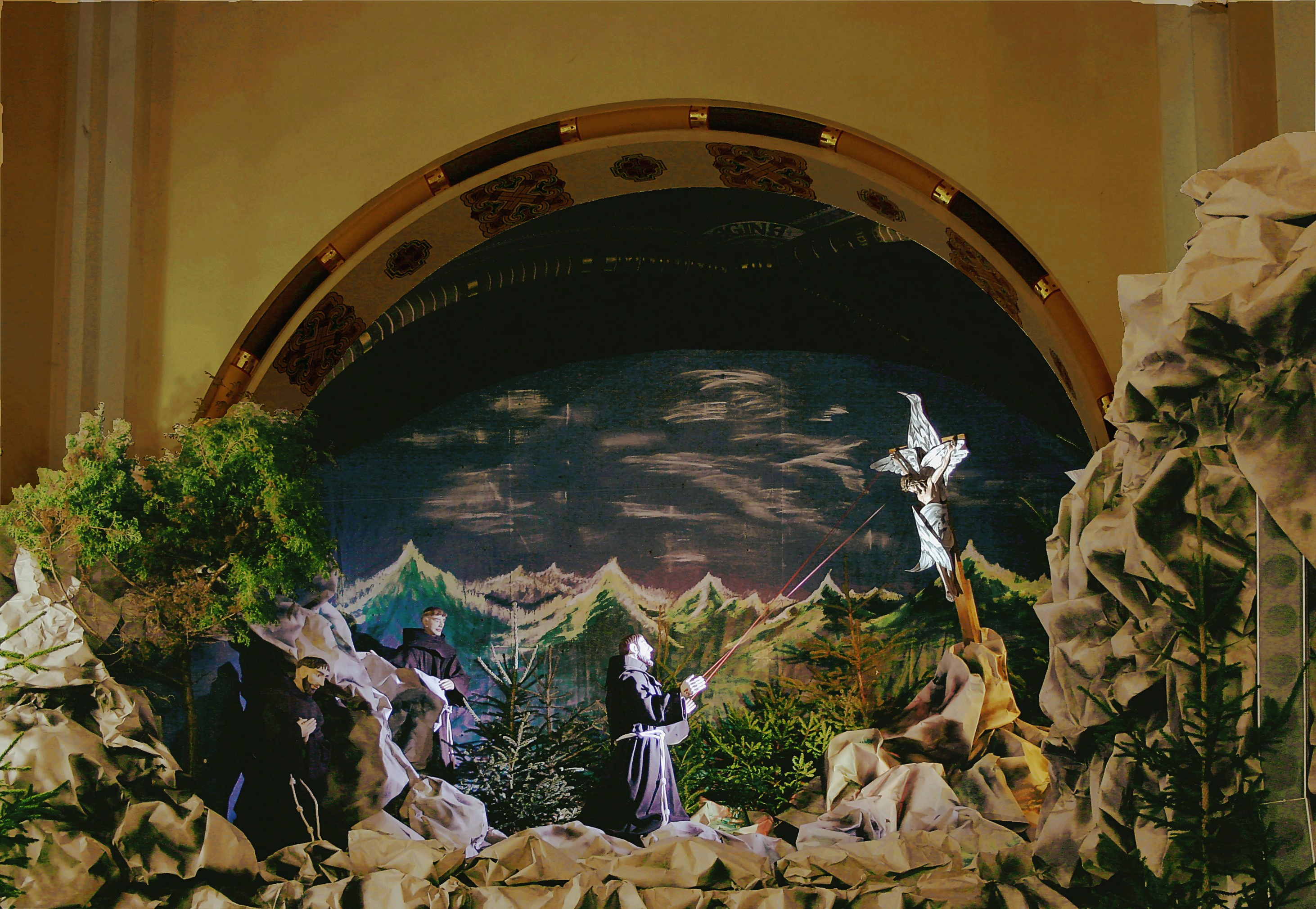 Crib in Katowice Panewniki, Poland (2005, part side - Stigmatization of St. Francis of Assisi)